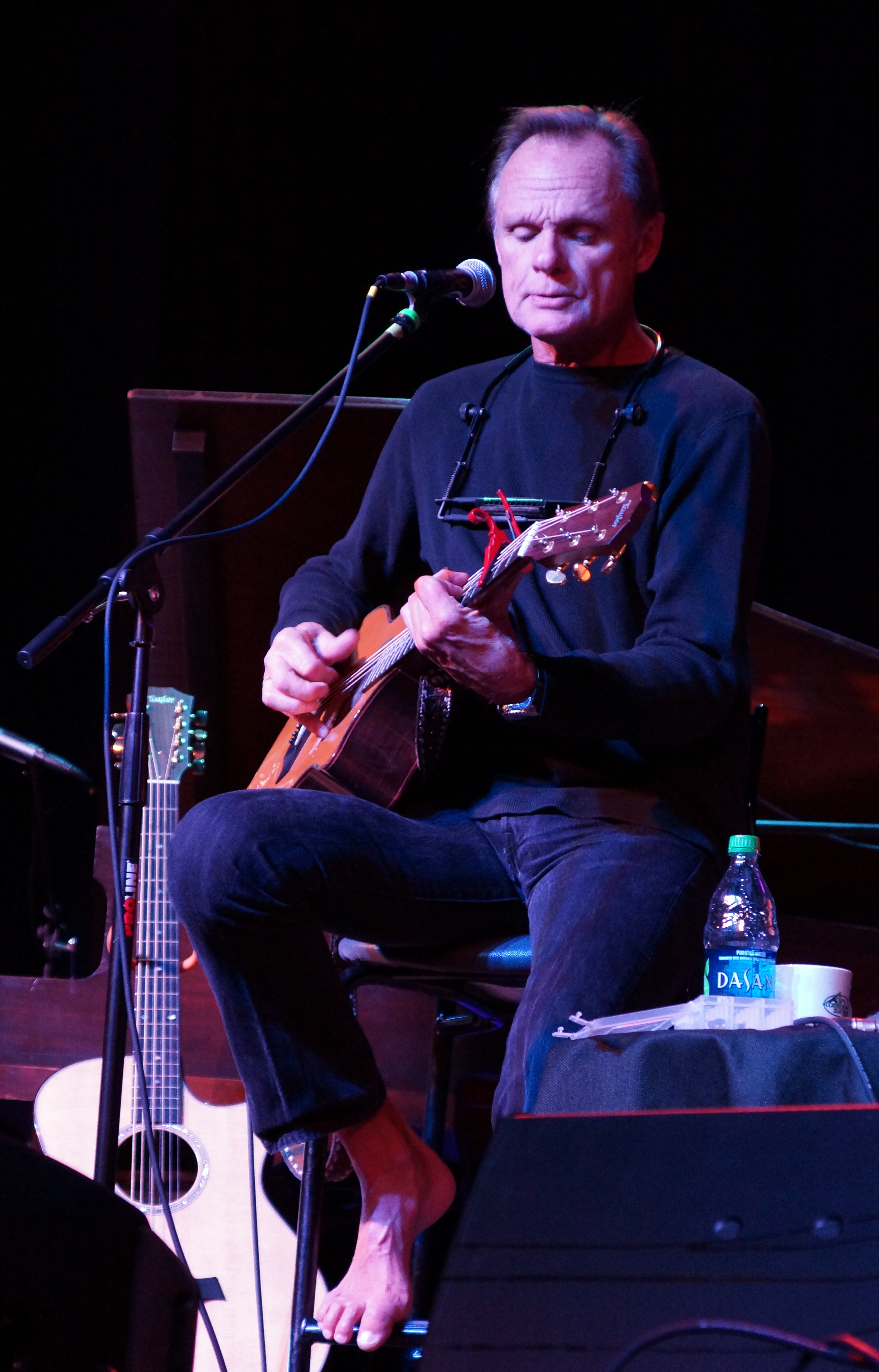 Jonathan Edwards performing the song "Sometimes" live at The Flying Monkey in Plymouth, New Hampshire, October 13, 2012